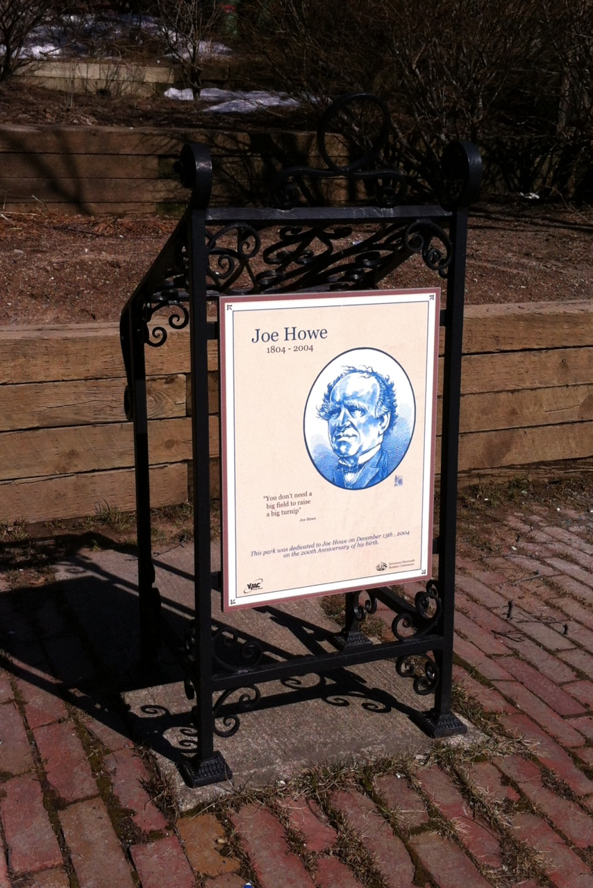 Joseph Howe Park, Dartmouth, Nova Scotia